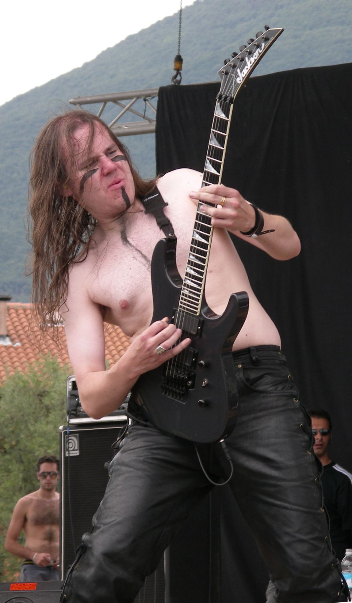 Markus Toivonen from Ensiferum during the Evolution Festival in 2006.